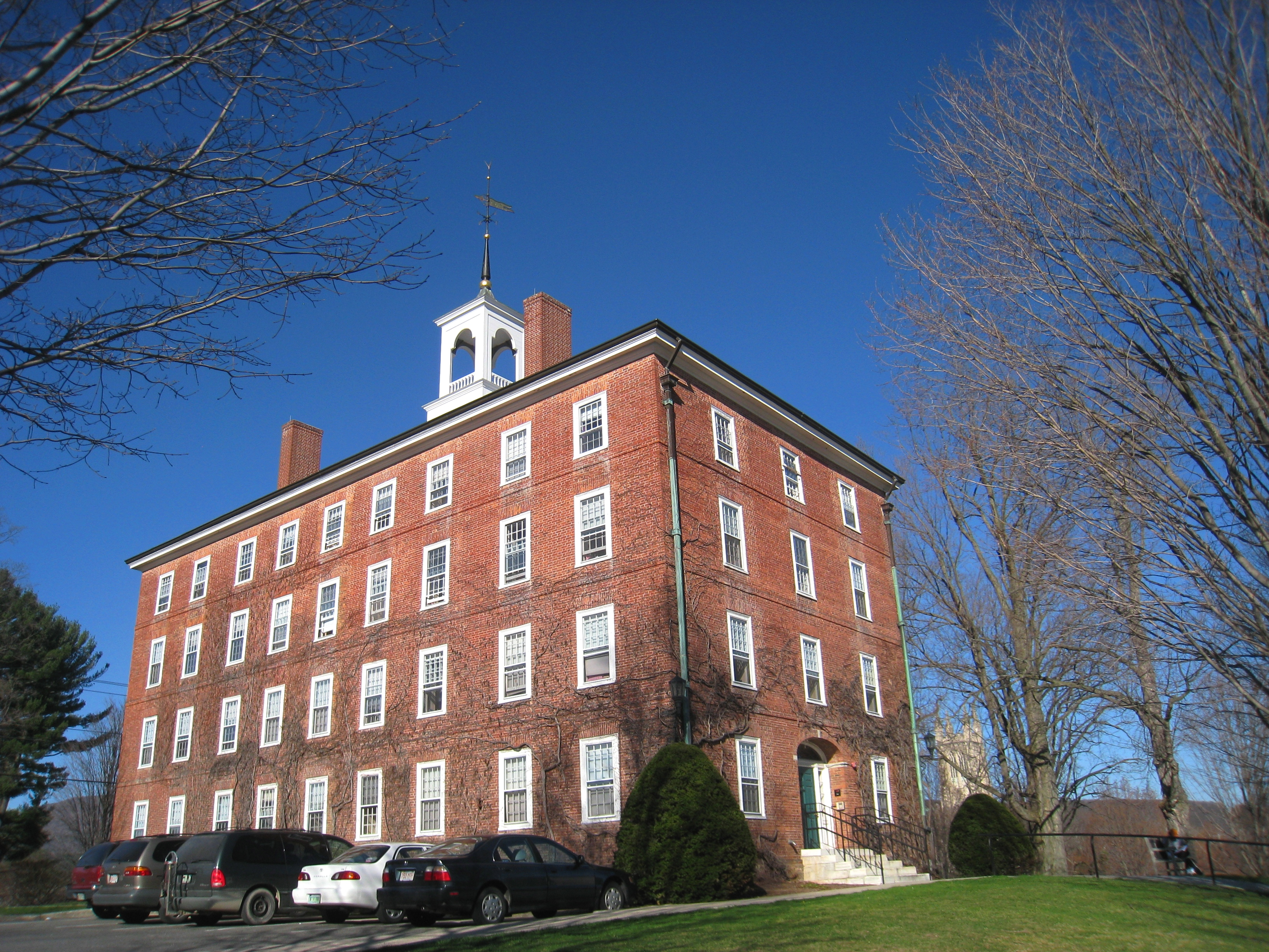 Williams College - West College. Williamstown, Massachusetts, USA.